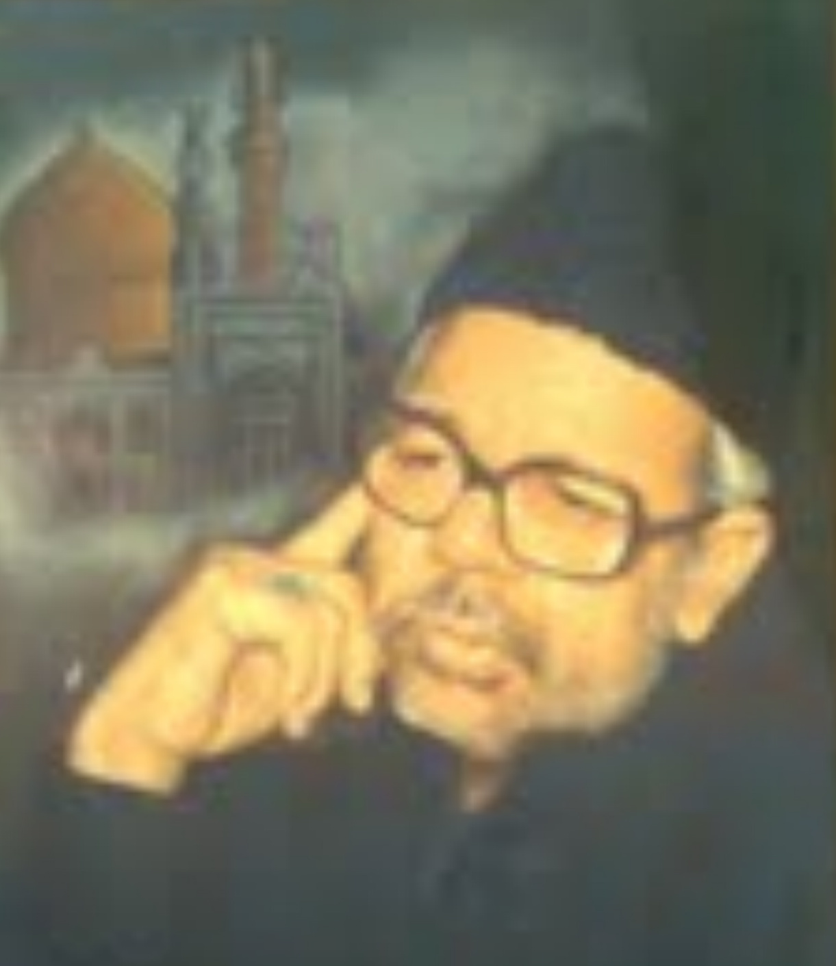 Khateeb-ul-Iman Maulana Syed Muzaffar Husain Rizvi Tahir Jarwali (1932 – 1987) — Indian Shia religious leader, social worker and preacher